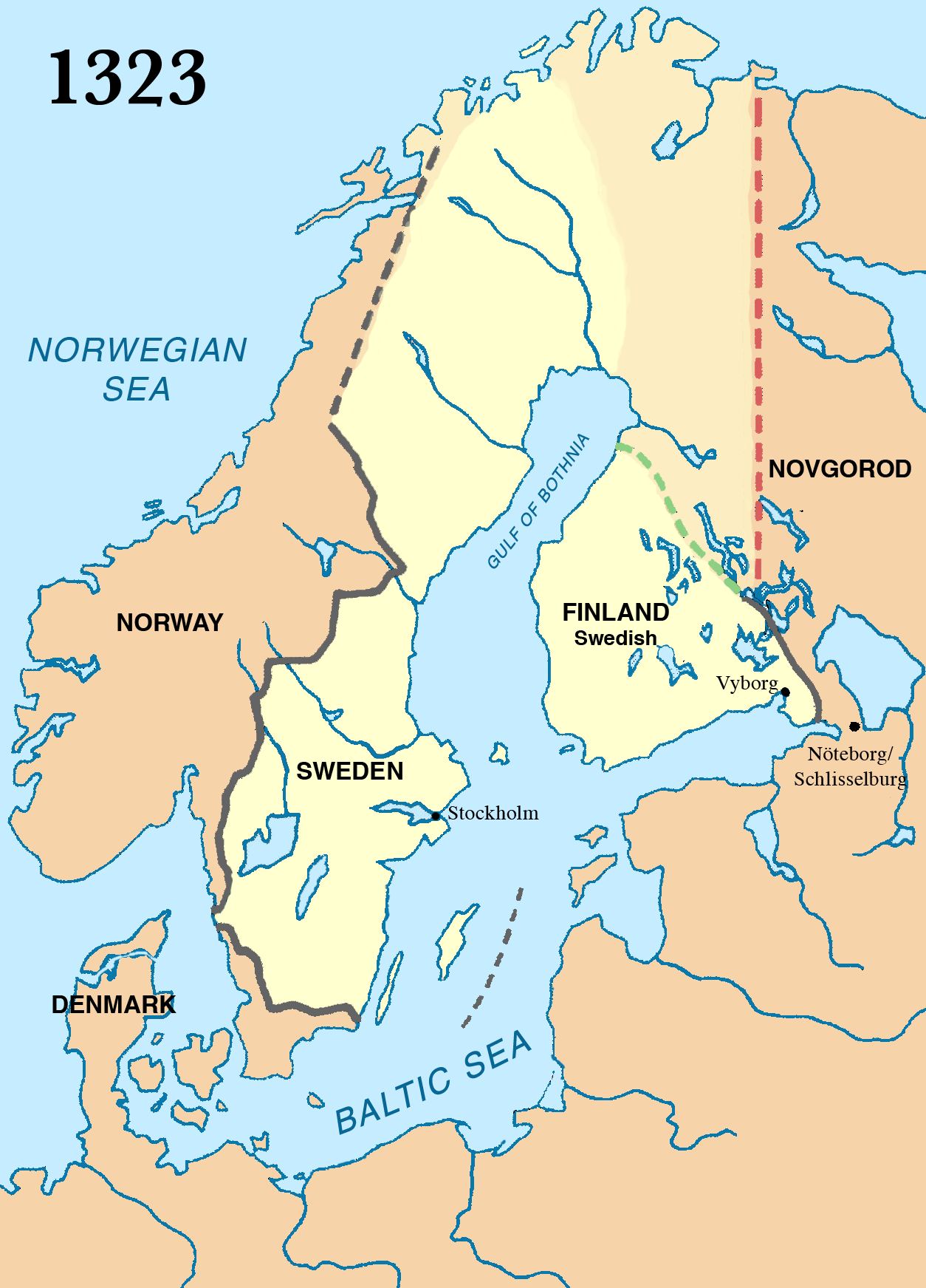 Sweden and neighboring countries in 1323, after the Peace of Nöteborg. The dotted lines are to be seen as indicators, not exact borders. For the first time in history, the Swedish-Novgorod border is regulated by treaty. The sources agree that the border begins at the Sestra River's outfall in the Gulf of Finland. Because of the vague wording, historians disagree on wether the border then went up to the Arctic Ocean (red line) or the Gulf of Bothnia (green line). Source: Sundberg, Ulf (1997) (in Swedish). Svenska Freder och Stillestånd 1249-1814. Arete. ISBN 91-89080-01-7. p. 50.